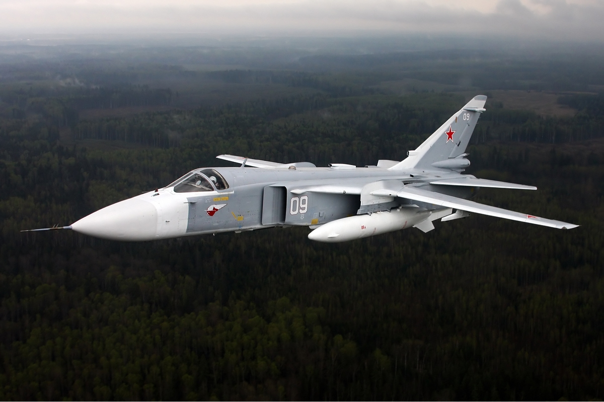 Russian Air Force Sukhoi Su-24M inflight